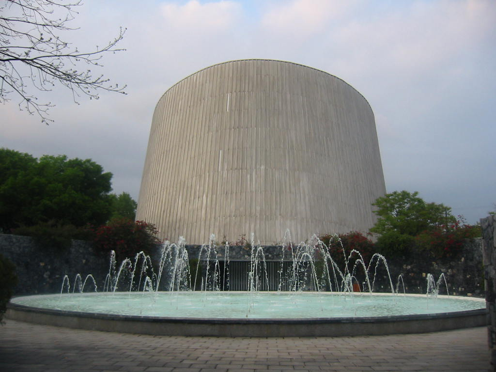 Front of Museum of Planetario Alfa, Monterrey N.L. México, IMAX Dome since 1978